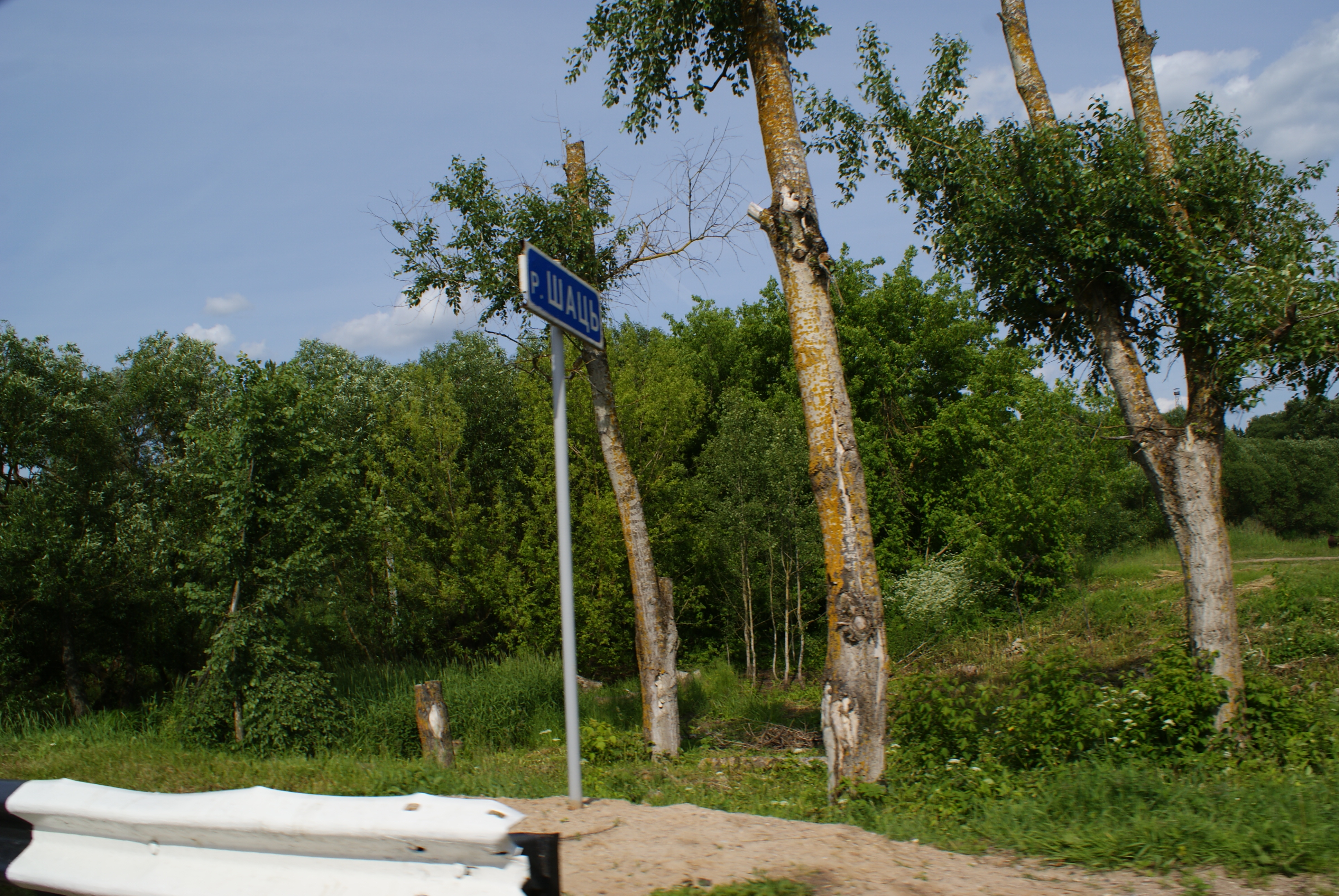 River Shat'